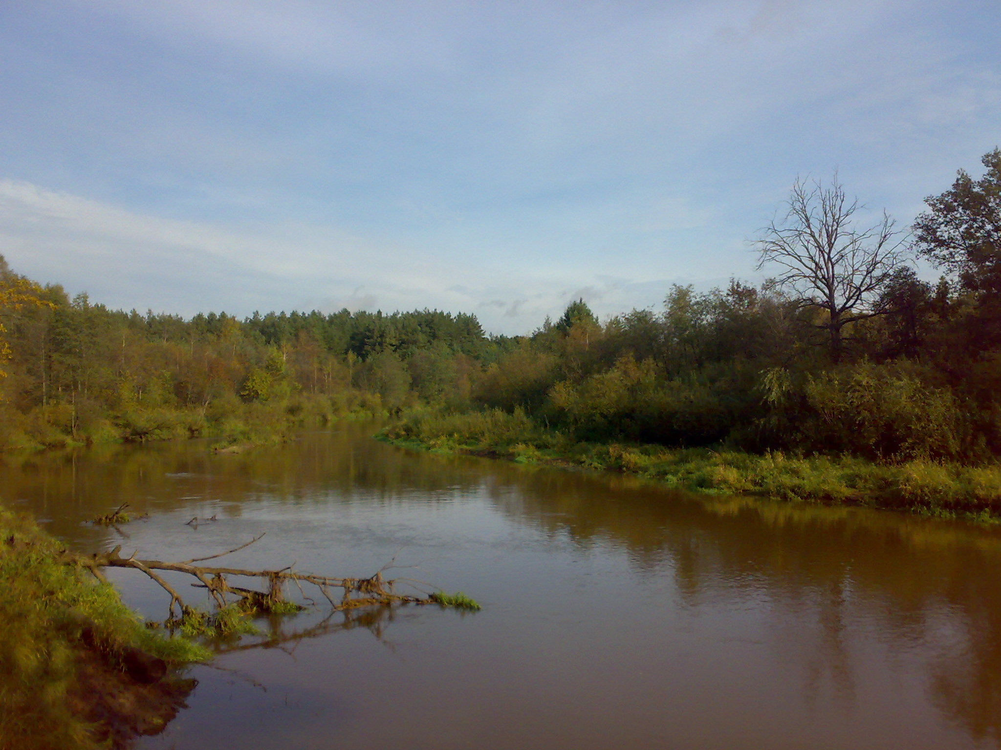 took this image using my mobile phone, on September 28, 2008. The Kirzhach River, Vladimir Region, Russia.